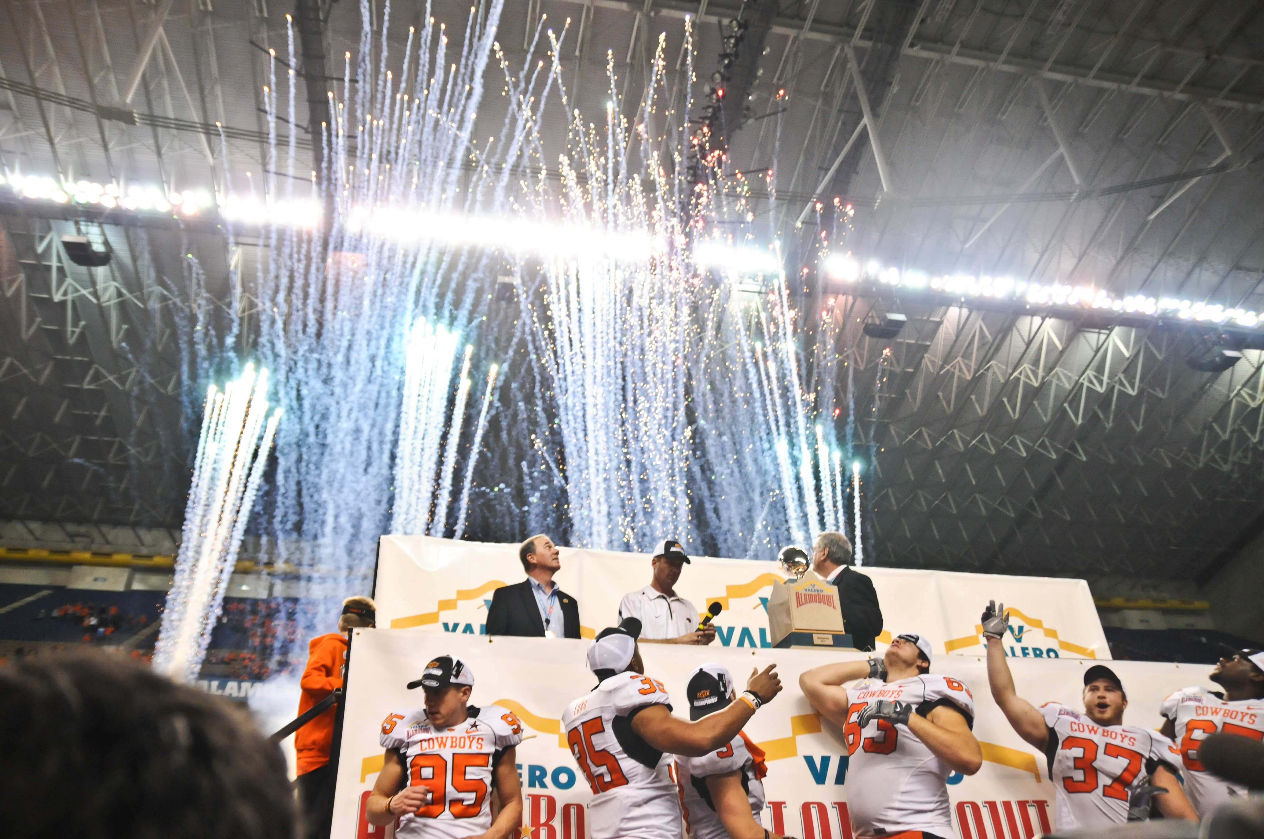 Cowboy seniors Dan Bailey and Bryant Ward along with Head Coach Mike Gundy receive the trophy